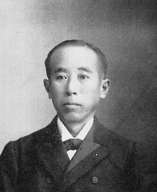 Naoyasu Ii